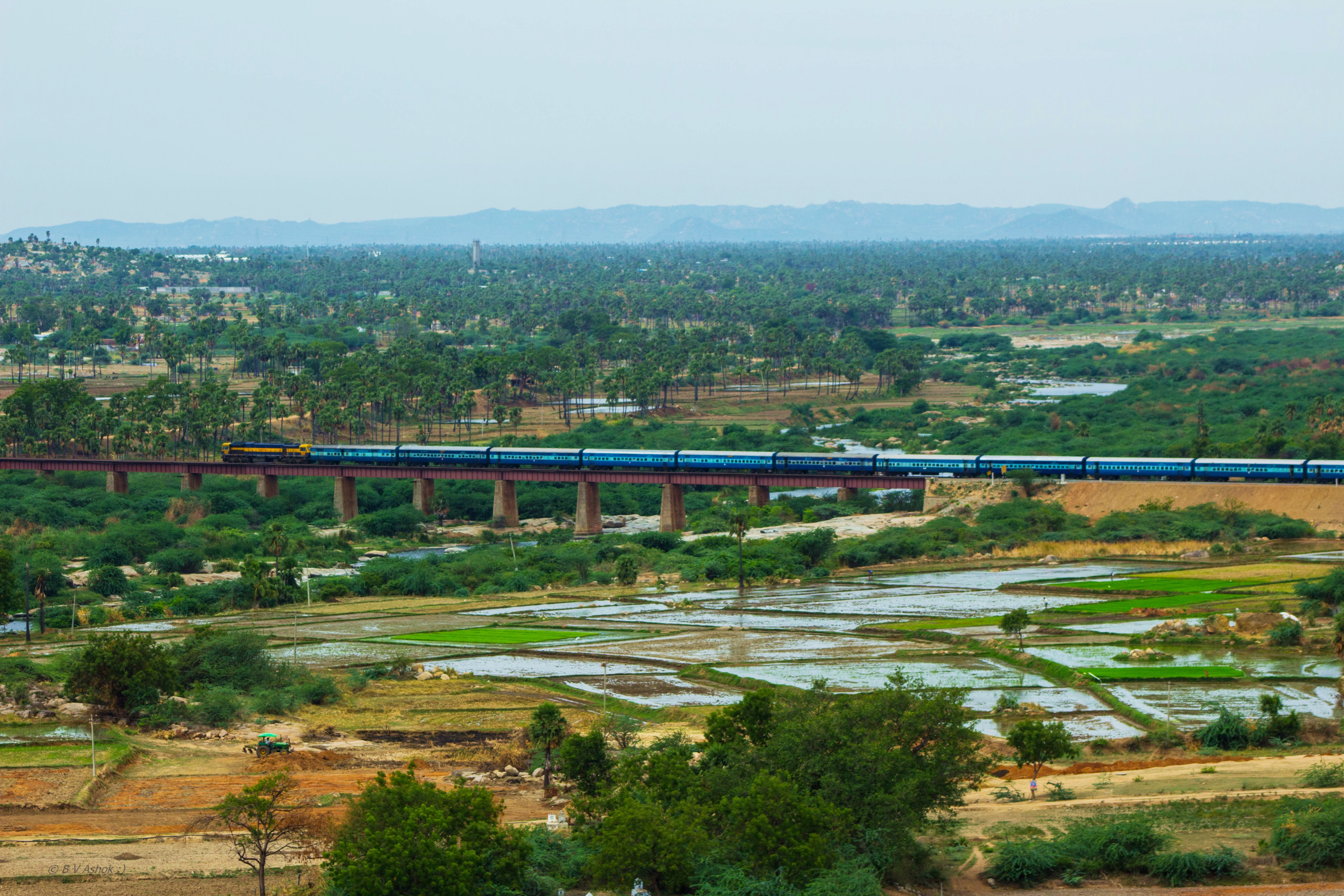 KZJ WDG-4D 70430 cruising over Musi river bridge with 07149 Secunderabad - Guwahati Special Express..